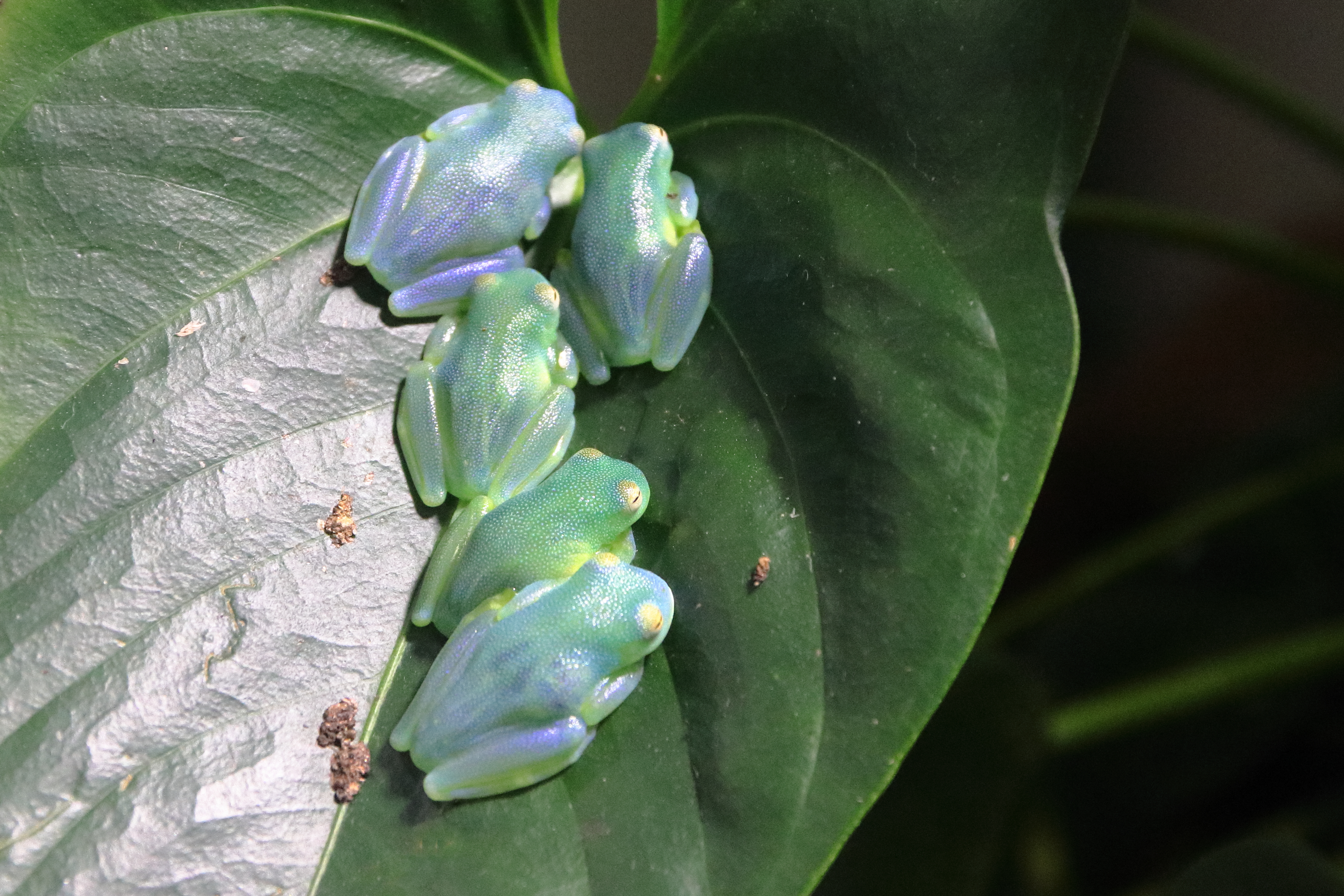 Picture of Glass Frogs (Centrolenidae). Photo taken at California Academy of Sciences, San Francisco, USA.